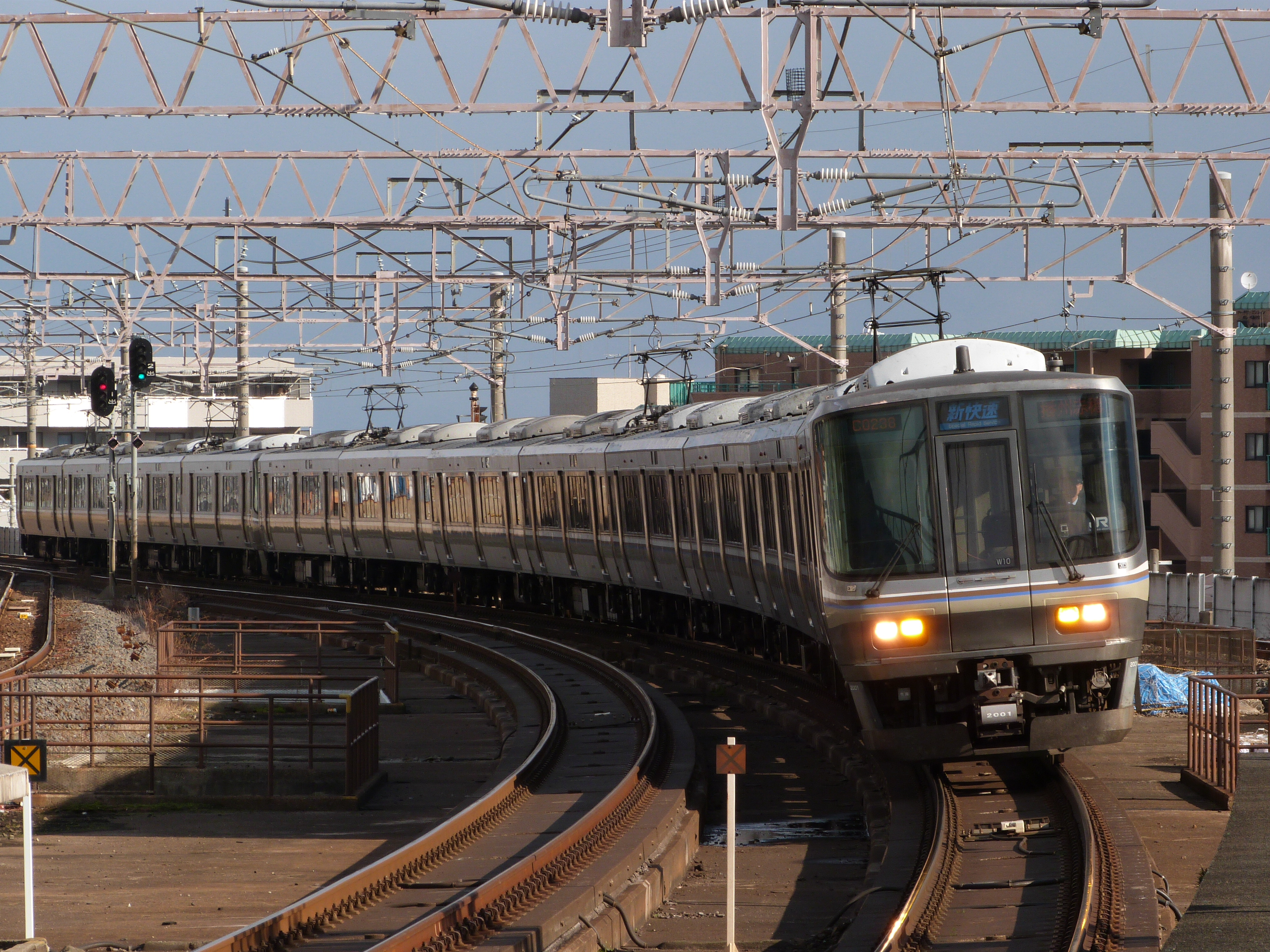 JR West 223 series EMU for the Special Rapid Service on the Kosei Line, entering Otsukyo Station